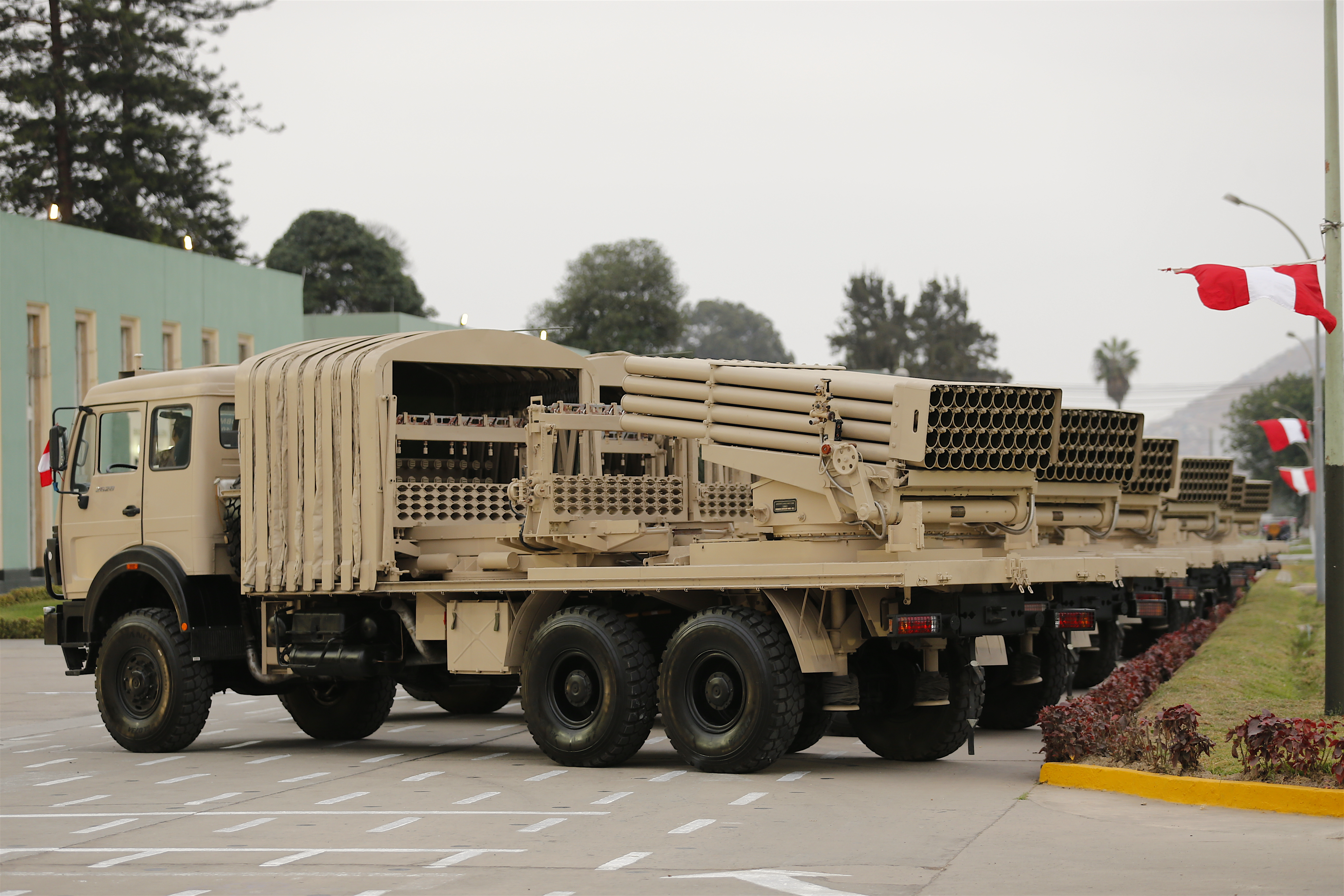 Multiple Peruvian Type 90B rocket launcher vehicles.